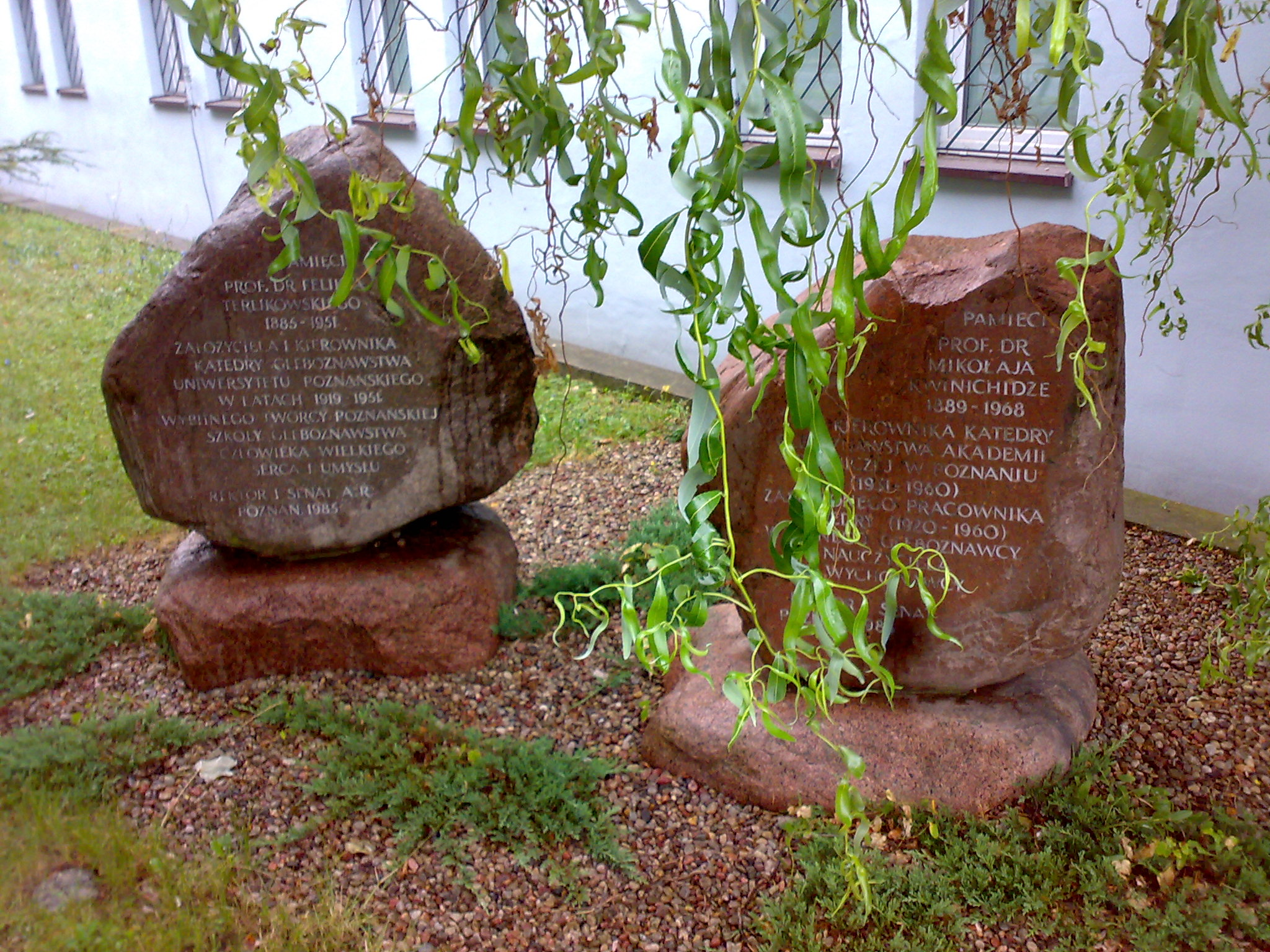 Bonin, Poznan - memory erratics of profesors Poznan Nature University. Szydlowska Street.